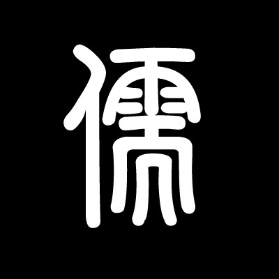 Character of Ru (Scholar)